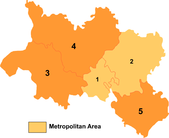 Map of Neijiang in Sichuan province